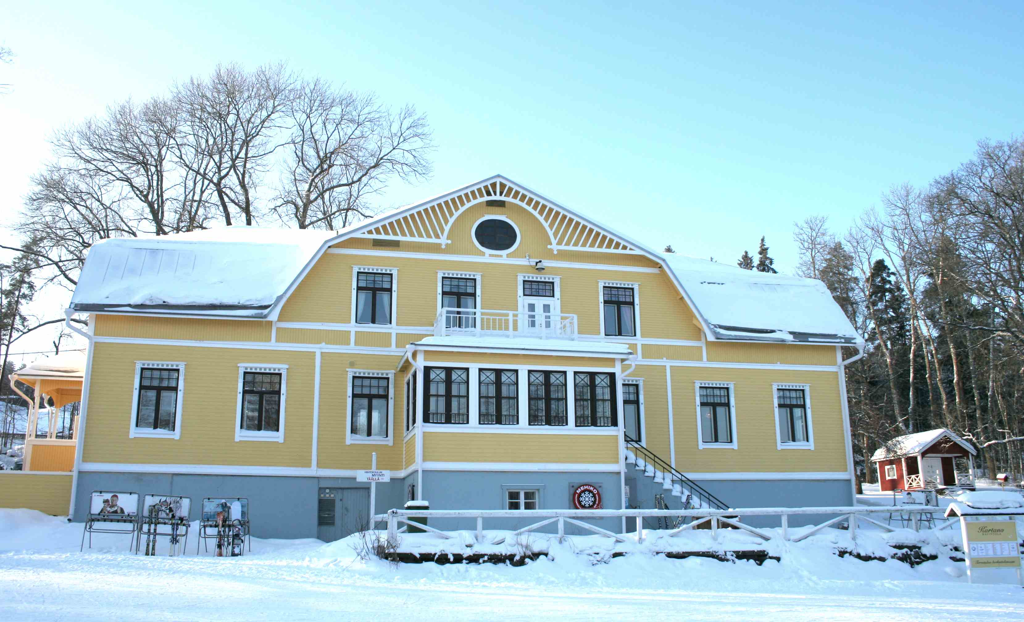 A building, built in 1910, at Messilä manor, Hollola, Finland